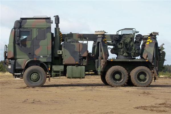 DAF YBB-95.480 army recovery vehicle, side view